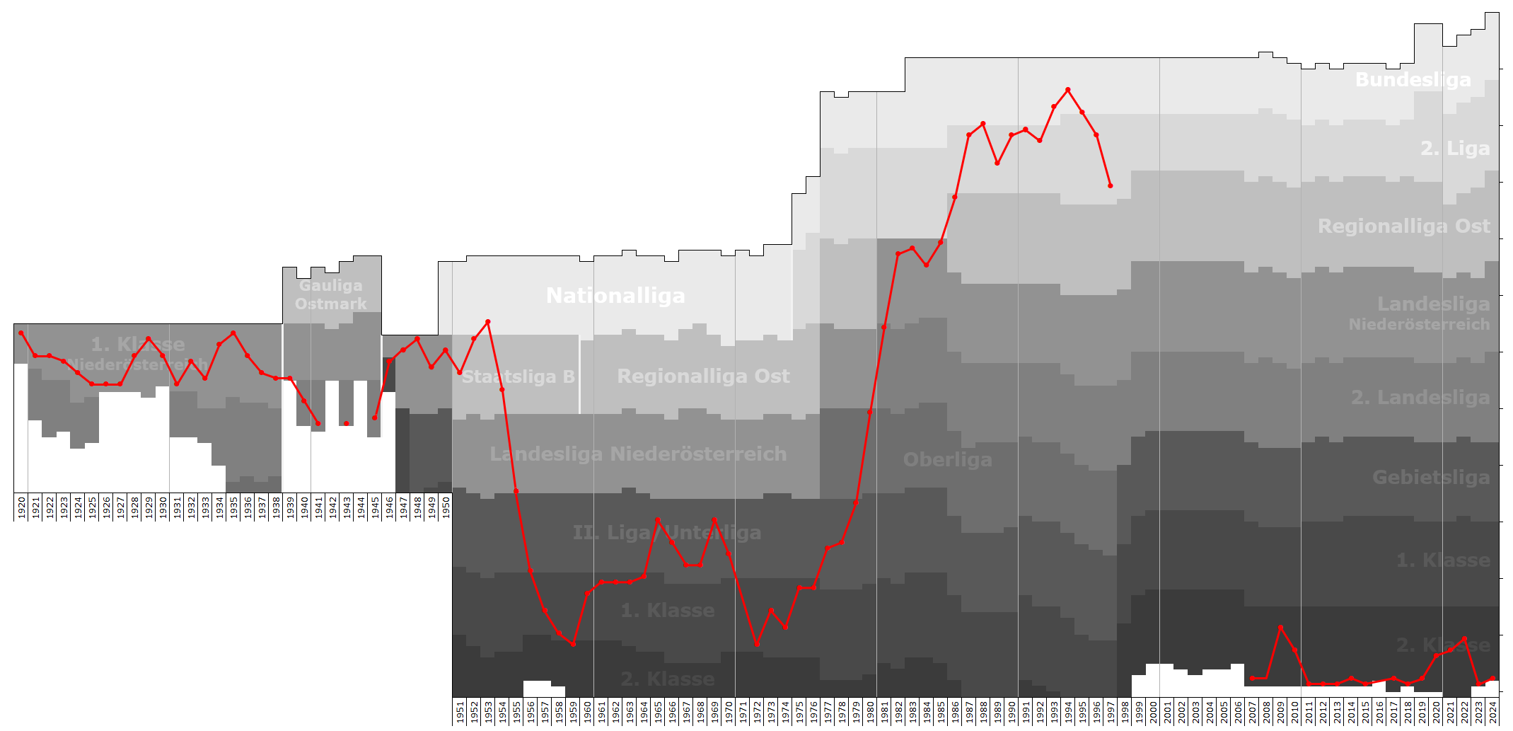 Chart of end-season table positions of VfB Mödling in the Austrian football league system. Data source: RSSSF, , regiowiki.at, noefv.at, wikipedia